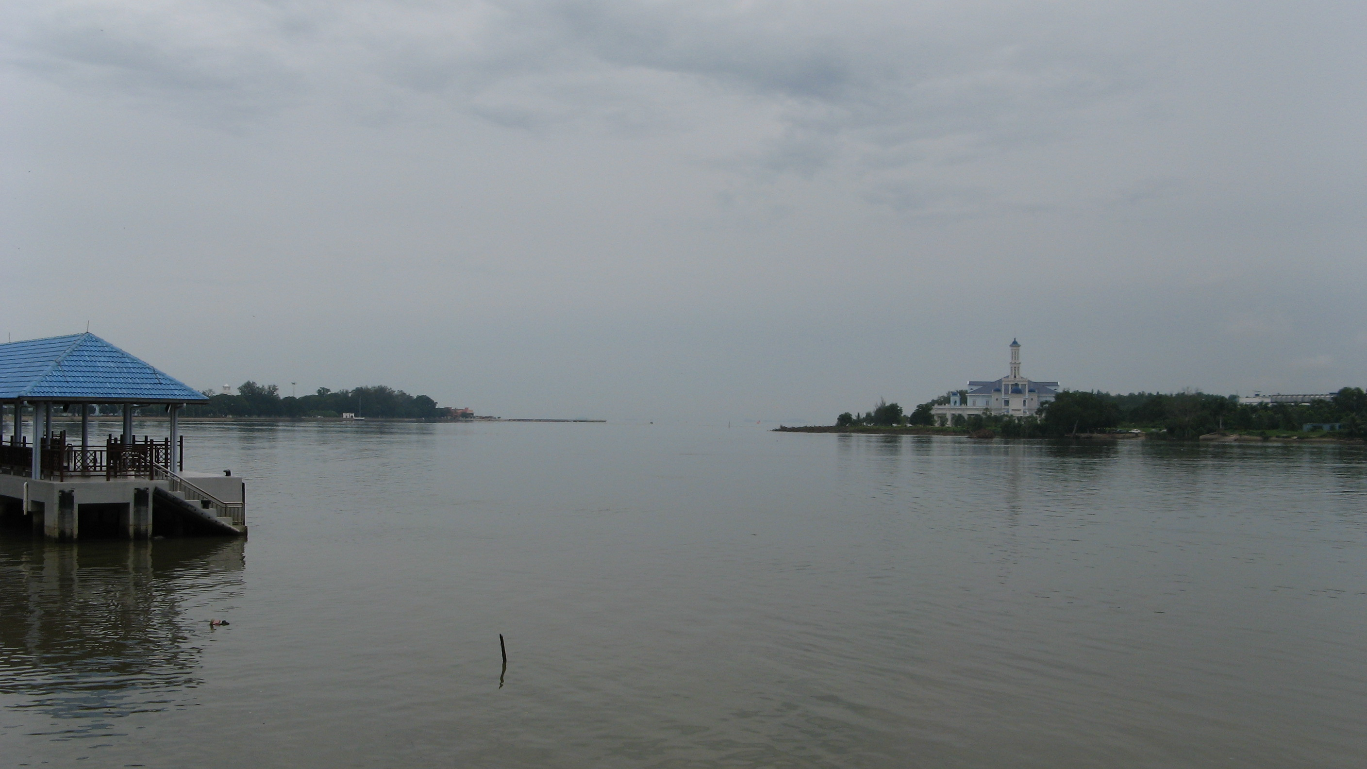 View of Muar River mouth